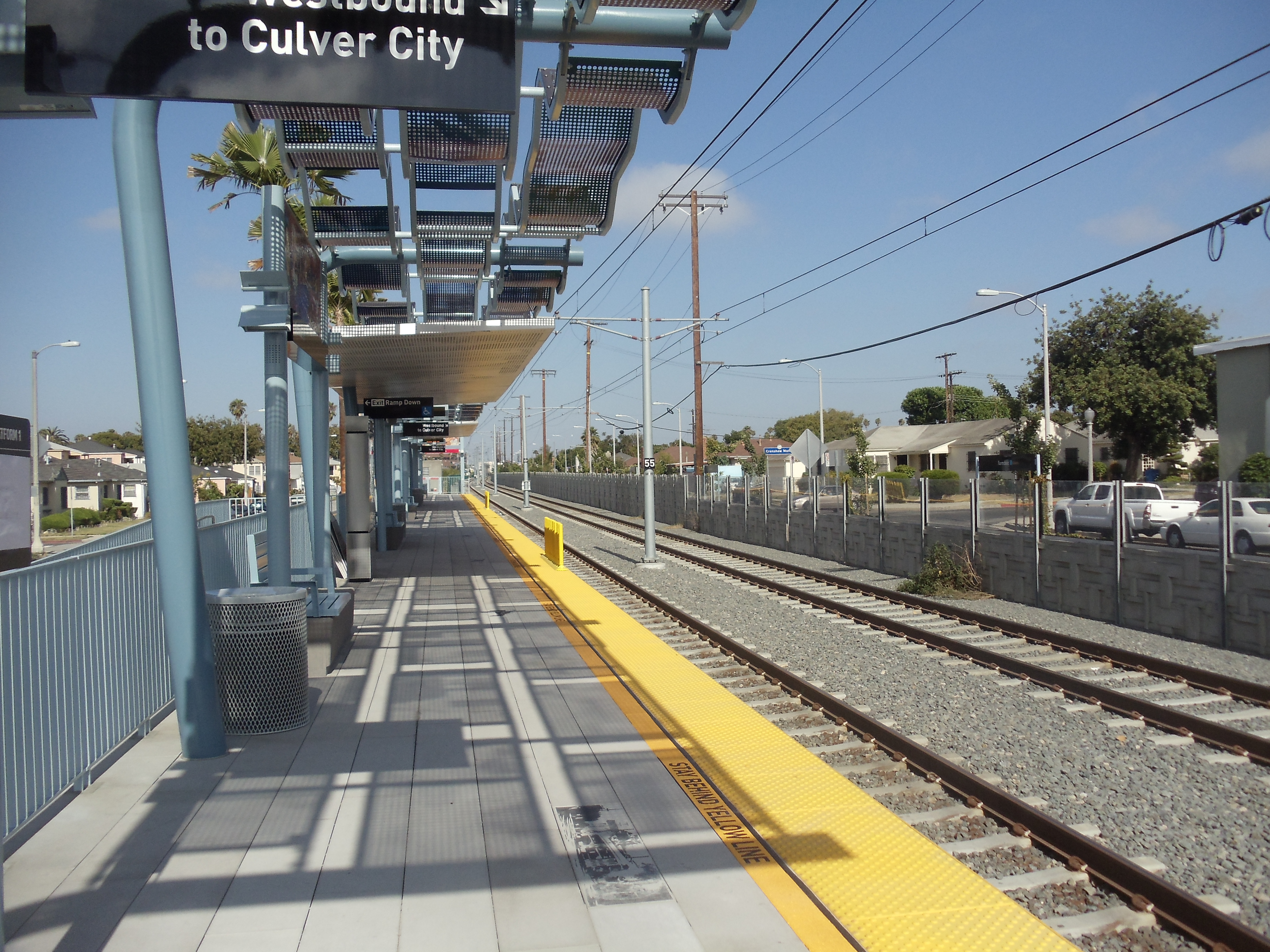 Westbound platform.